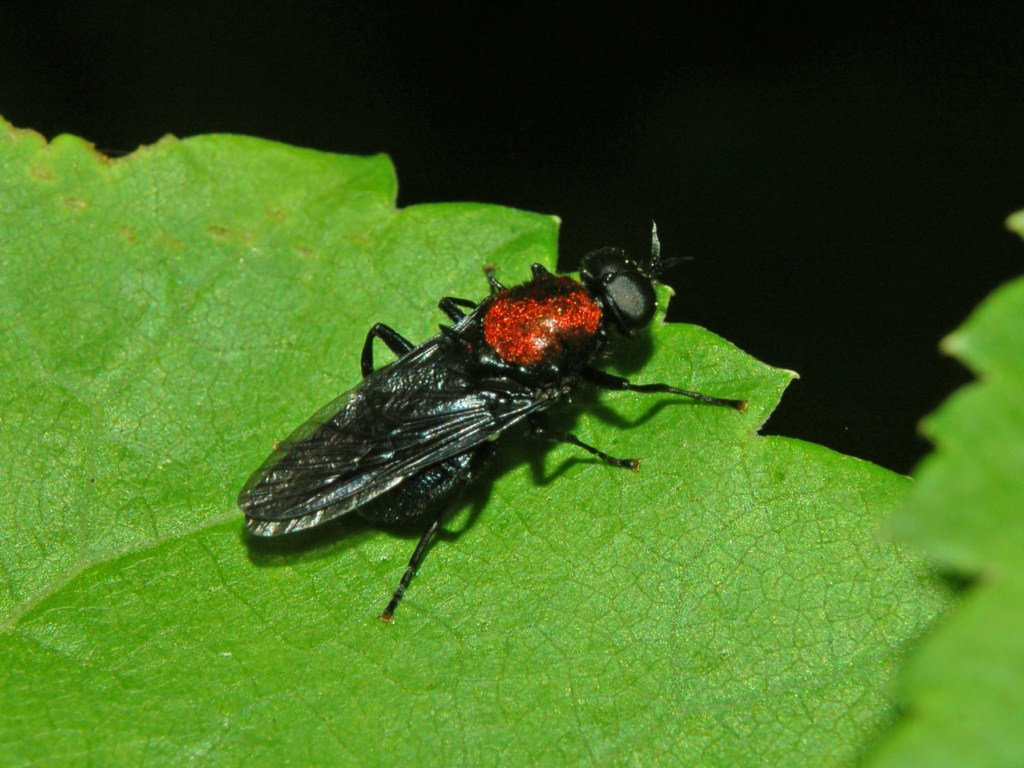 Clitellaria ephippium. Male